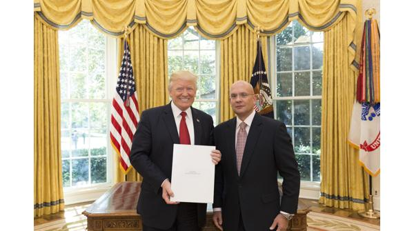 AMBASSADOR PJER ŠIMUNOVIĆ PRESENTS CREDENTIALS TO PRESIDENT DONALD J. TRUMP